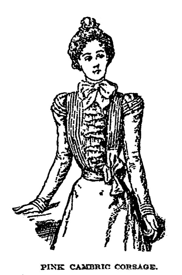 "The illustration represents a corsage by Charvet. It is a blouse of pink cambric finely plaited, and with a white cascade frill, also of cambric, down the center. The scarf is of white cambric and the waistband of pink cambric."